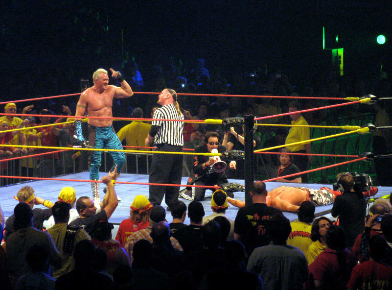 Hulkamania Tour @ Rod Laver Arena. Melbounre, AUS.